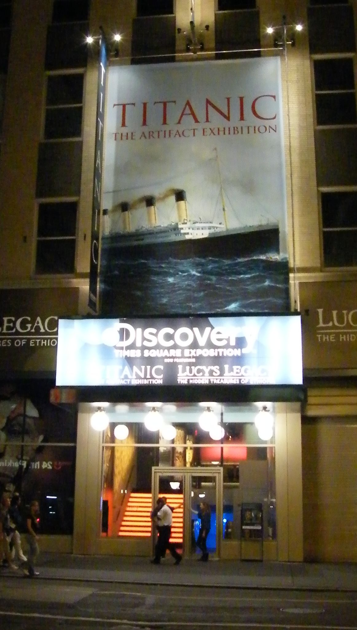 Discovery Times Square Exposition, Manhattan, New York.